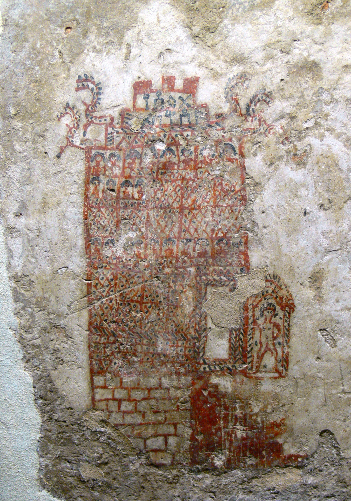 Pergamon Museum ( Berlin ). Exhibition "Roads of Arabia": Fragment of a wall painting depicting a tower house with inhabitants ( 3rd century BC - 3rd century AD ), black, red and yellow paint on white plaster, 59x64 cm, from Qaryat al-Faw ( Department of Archaeology Museum, King Saud University, Riyadh ).